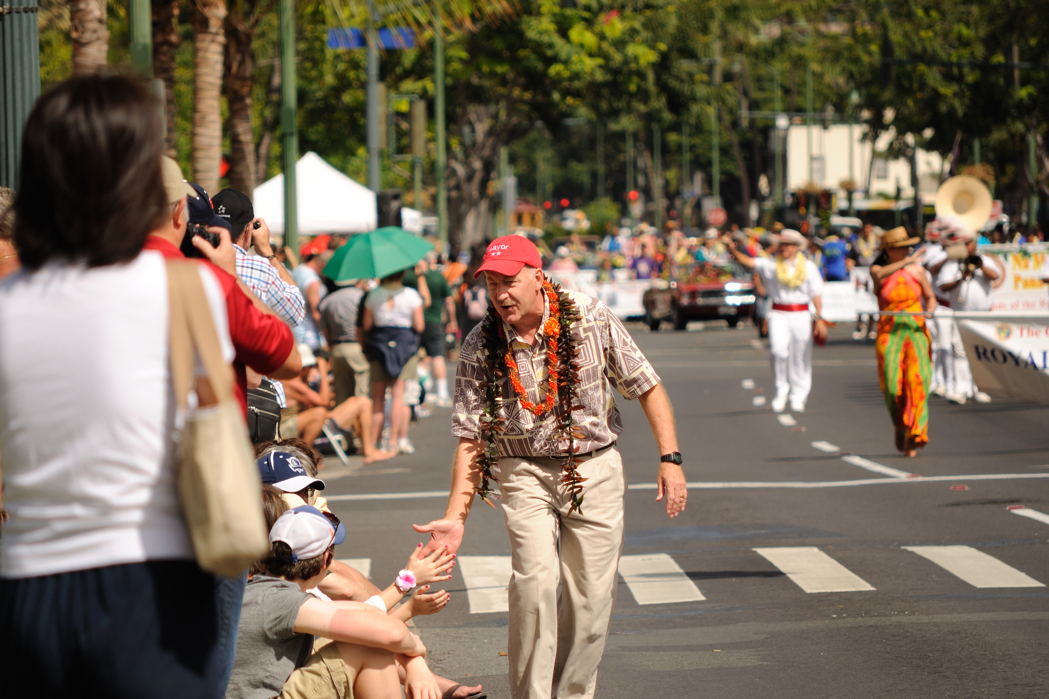 Mayor Carlisle. Always see him running around greeting people in the parades but this is the first good shot I got of him.